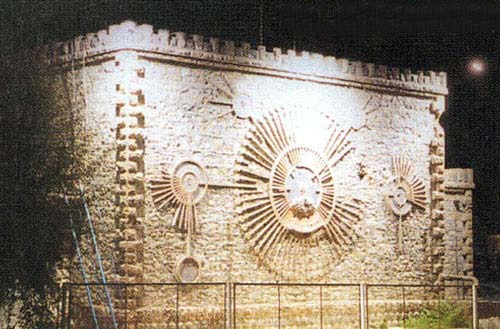 Aqueduct in Ptolemaida, Greece